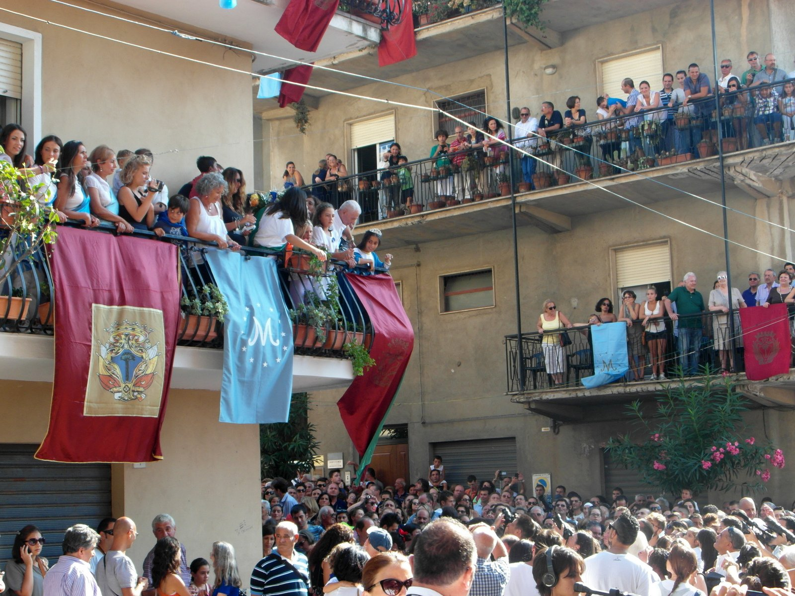 The little girl called "Animella" ("Little soul") on the balcony will be hoisted up onto a gigantic pedestal (called "Varia") and carried around town. She represents the Virgin Mary Assumpted into Heaven This video as a reference for the "Animelle" ("Little souls") of the previous years.